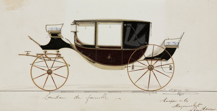 'Landau' carriage, 1855 Coloured drawing by J Gilfoy of a carriage designed by George N Hooper. From a collection of carriage designs by Hooper & Co (Coach Builders) Ltd, Haymarket, London.